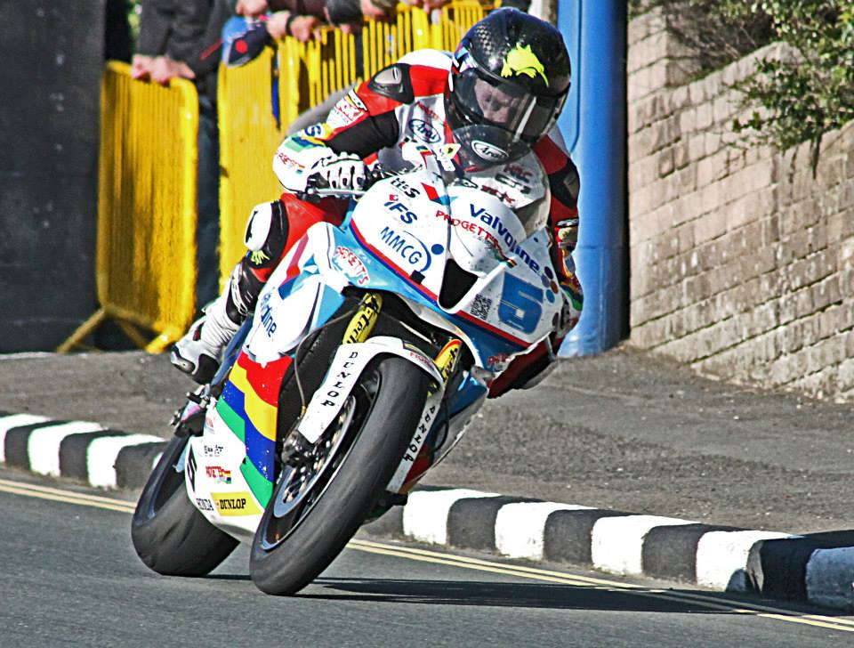 Bruce Anstey descends Bray Hill in the Supersport 600cc TT.